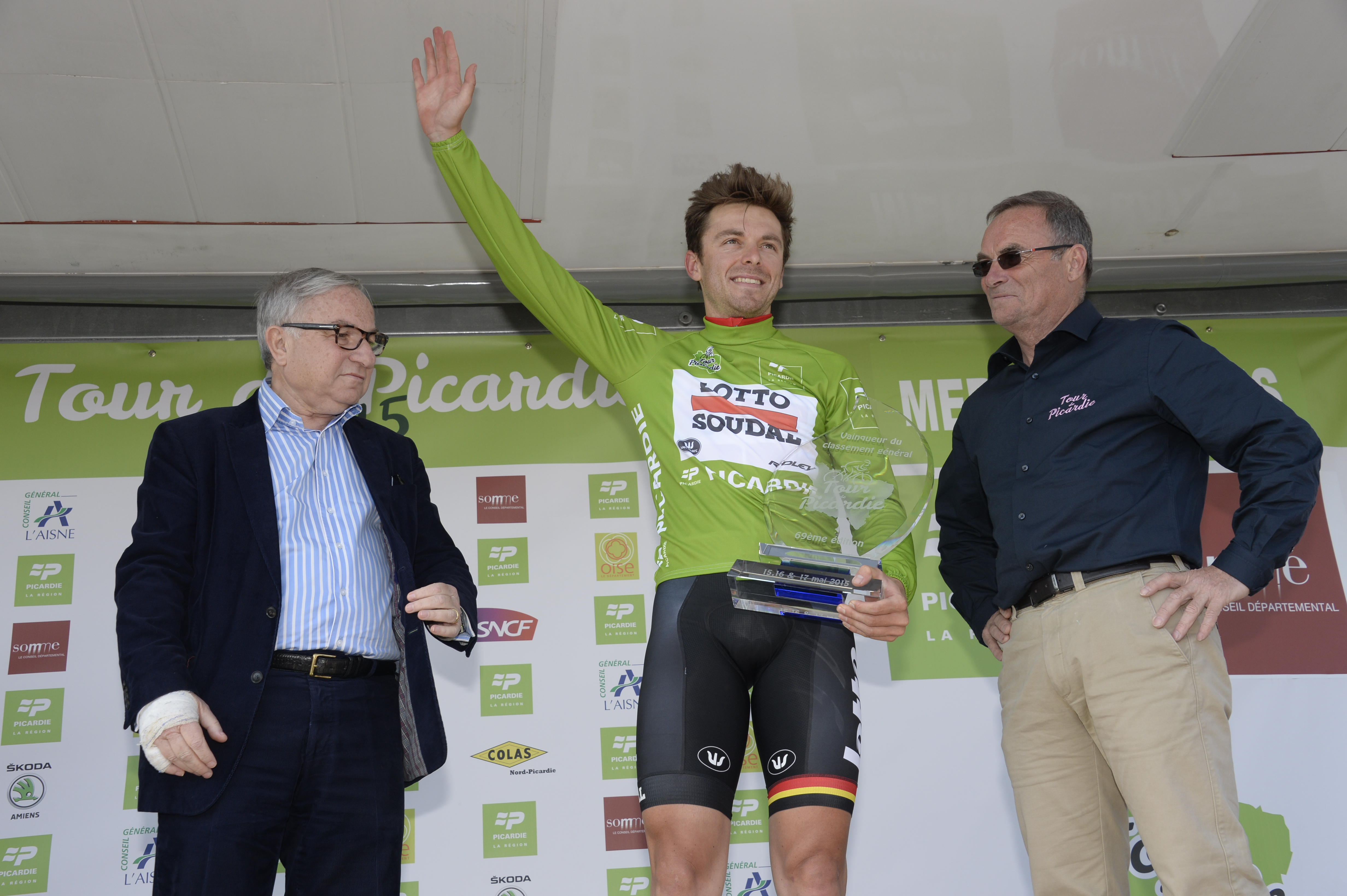 Podium du Tour de Picardie 2015